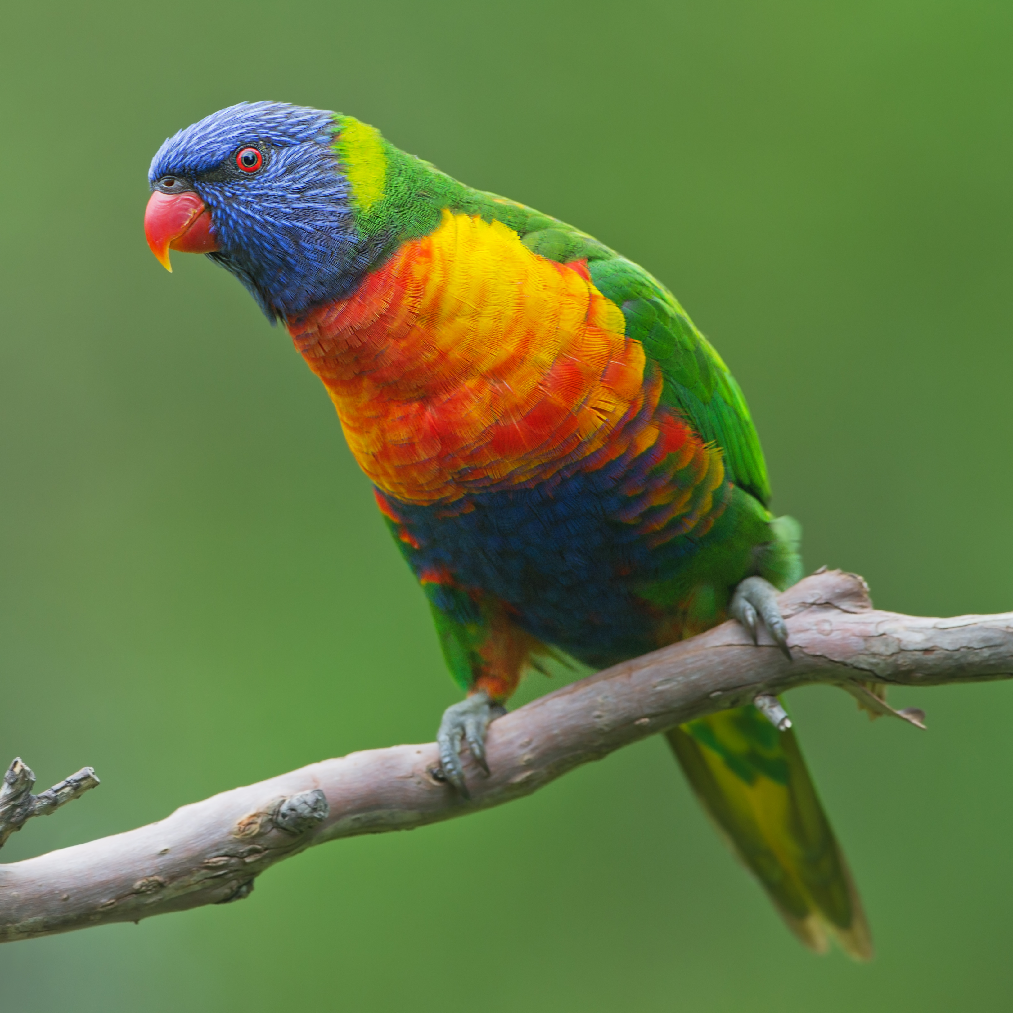 Rainbow Lorikeet (Trichoglossus moluccanus) , New Lambton, New South Wales, Australia